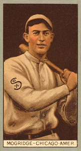 George Mogridge baseball card